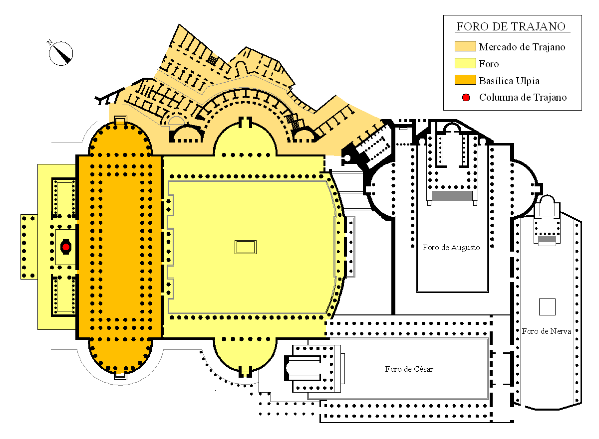 Trajan's forum